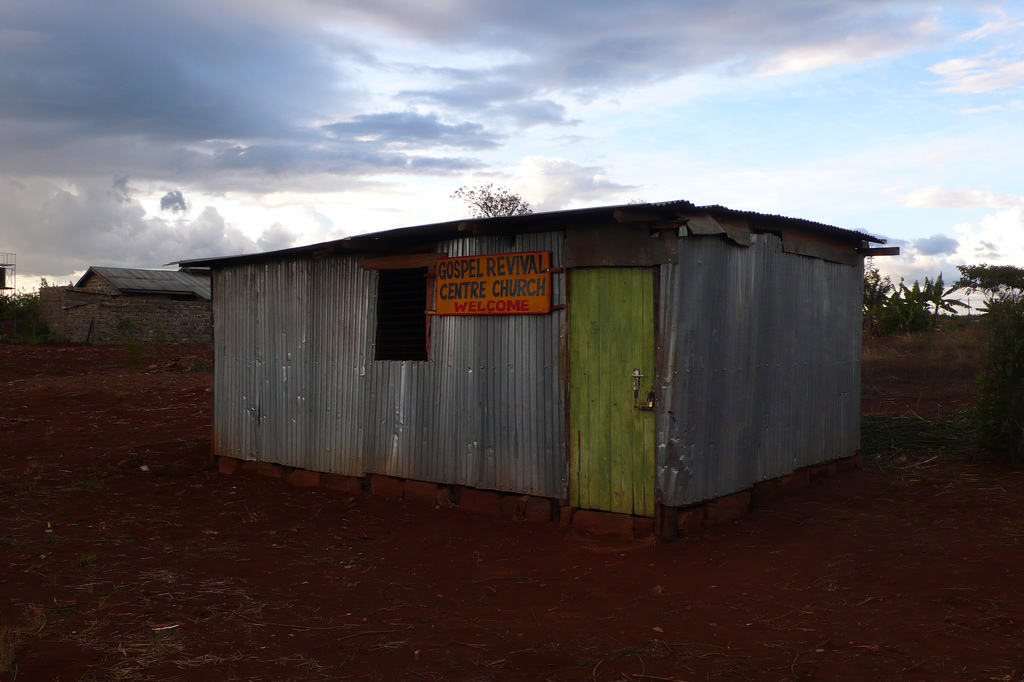 Gospel Revival Church, Ruiru, Kenya